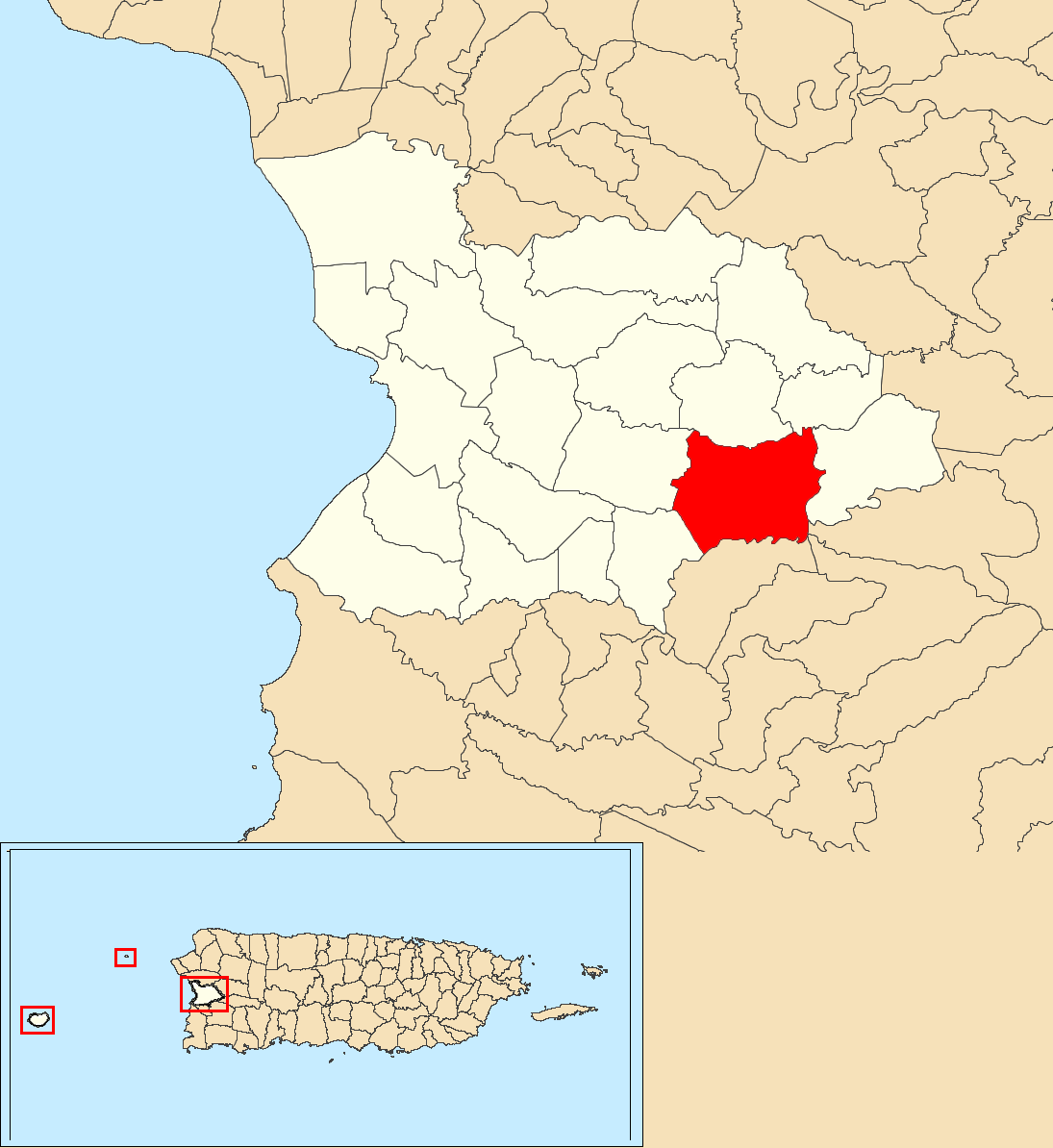 Limón, Mayagüez, Puerto Rico locator map